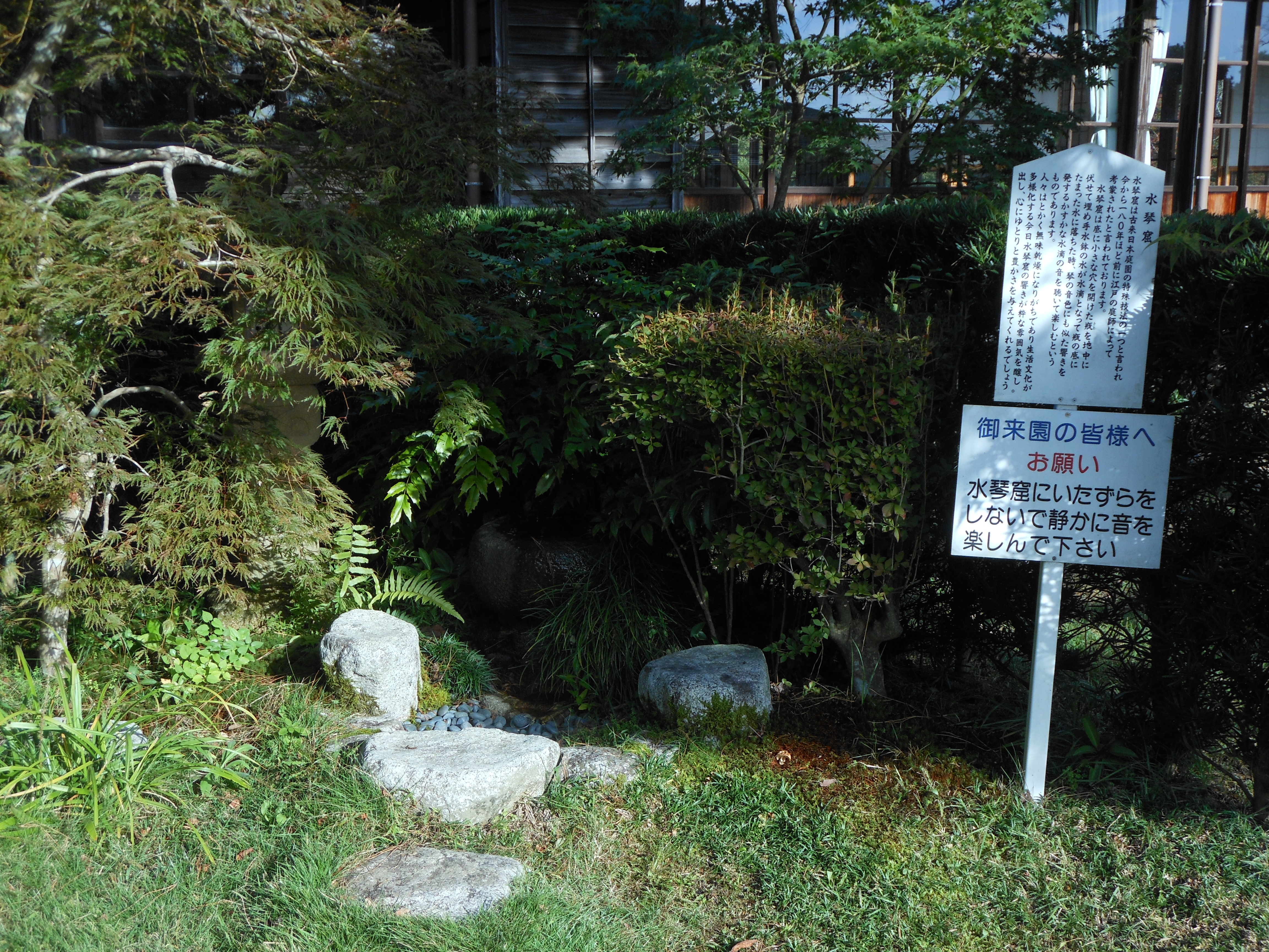 "Suikinkutsu", a Japanese garden equipment that prodeces harp-like sound. It is at Seikei Park, in Taku city.